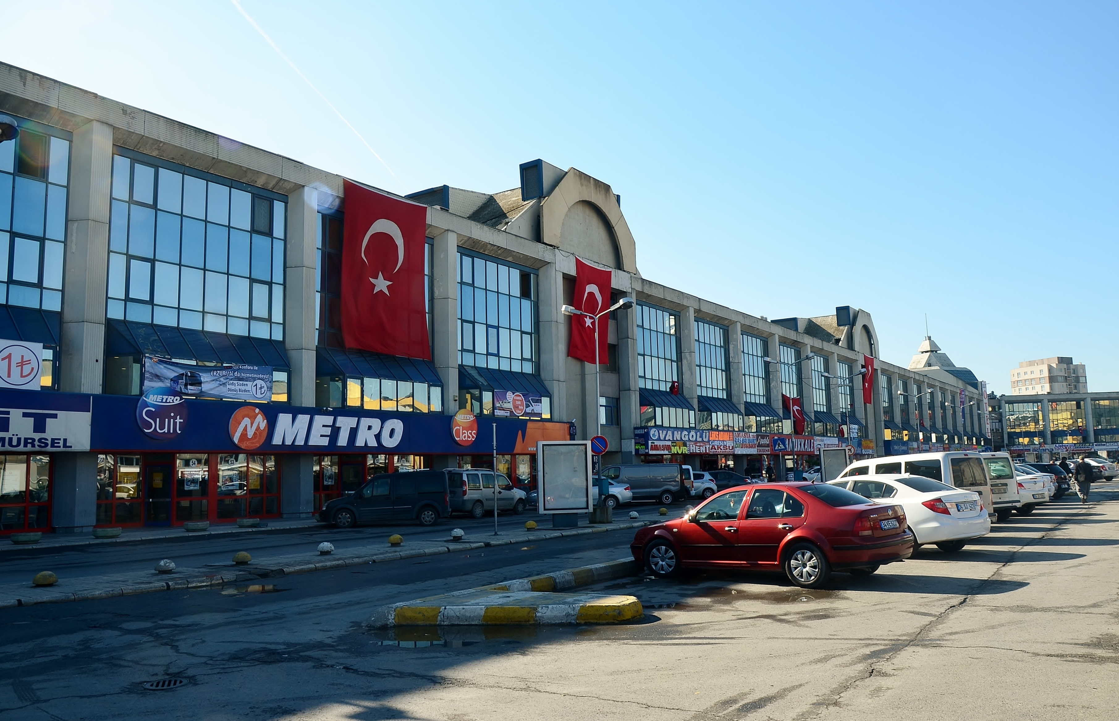 Esenler Bus Terminus (Otogar) in Istanbul, Turkey